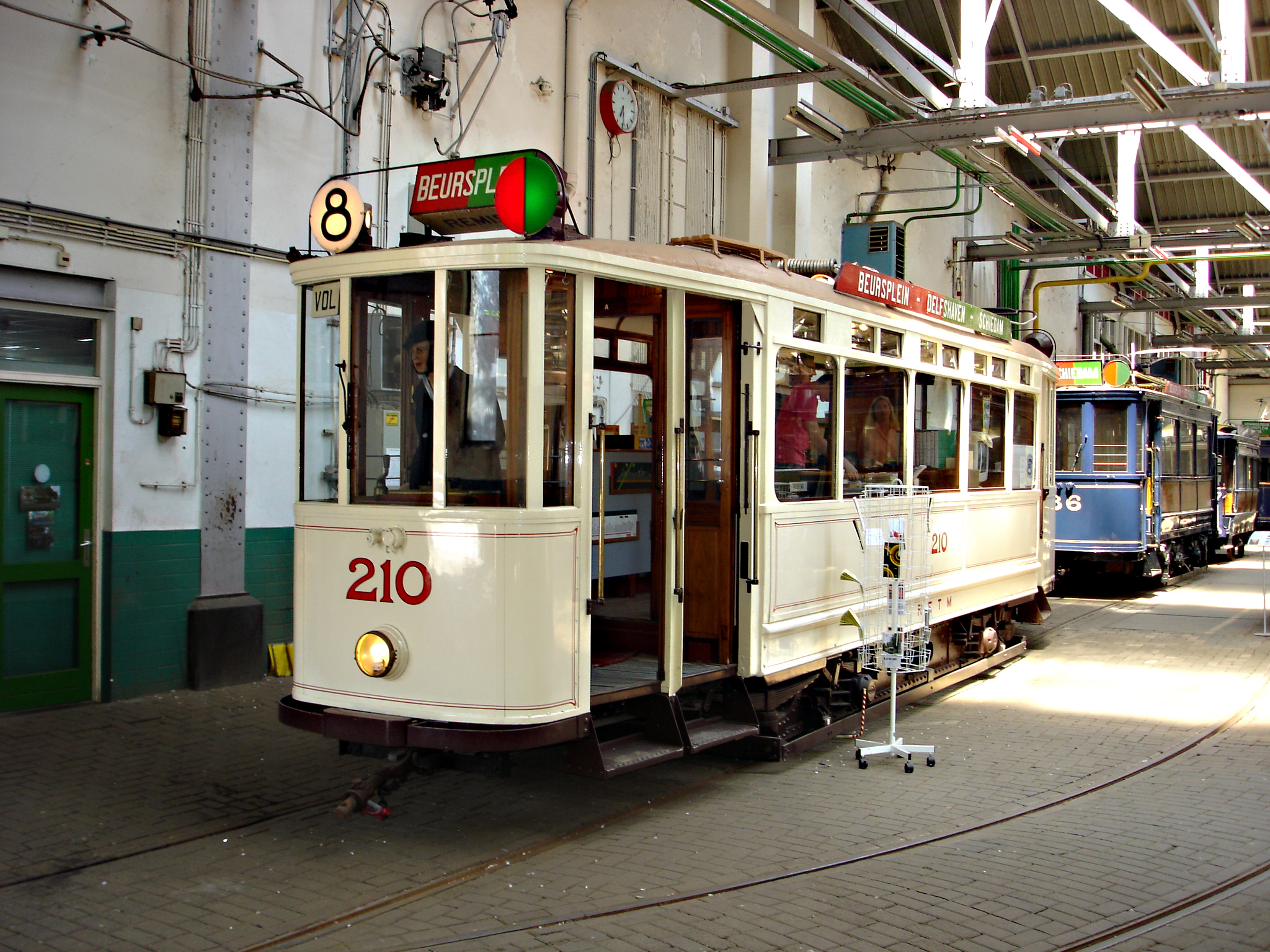 Tram 210 Trammuseum Rotterdam